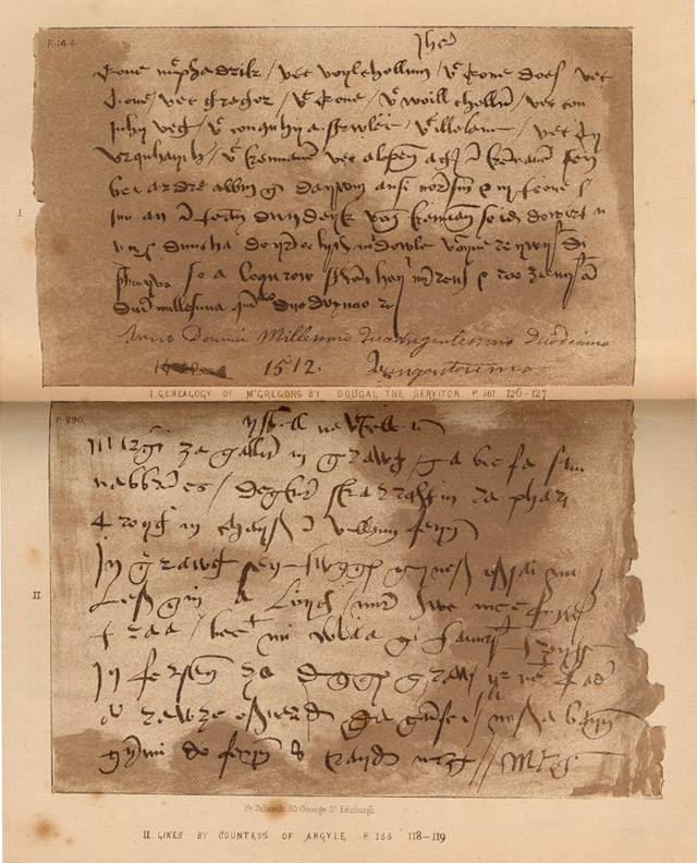 2 facsimiles from the Book of the Dean of Lismore, a Genealogy of McGregor, by Dougal the servitor (top) and text by Countess of Argyll (bottom).